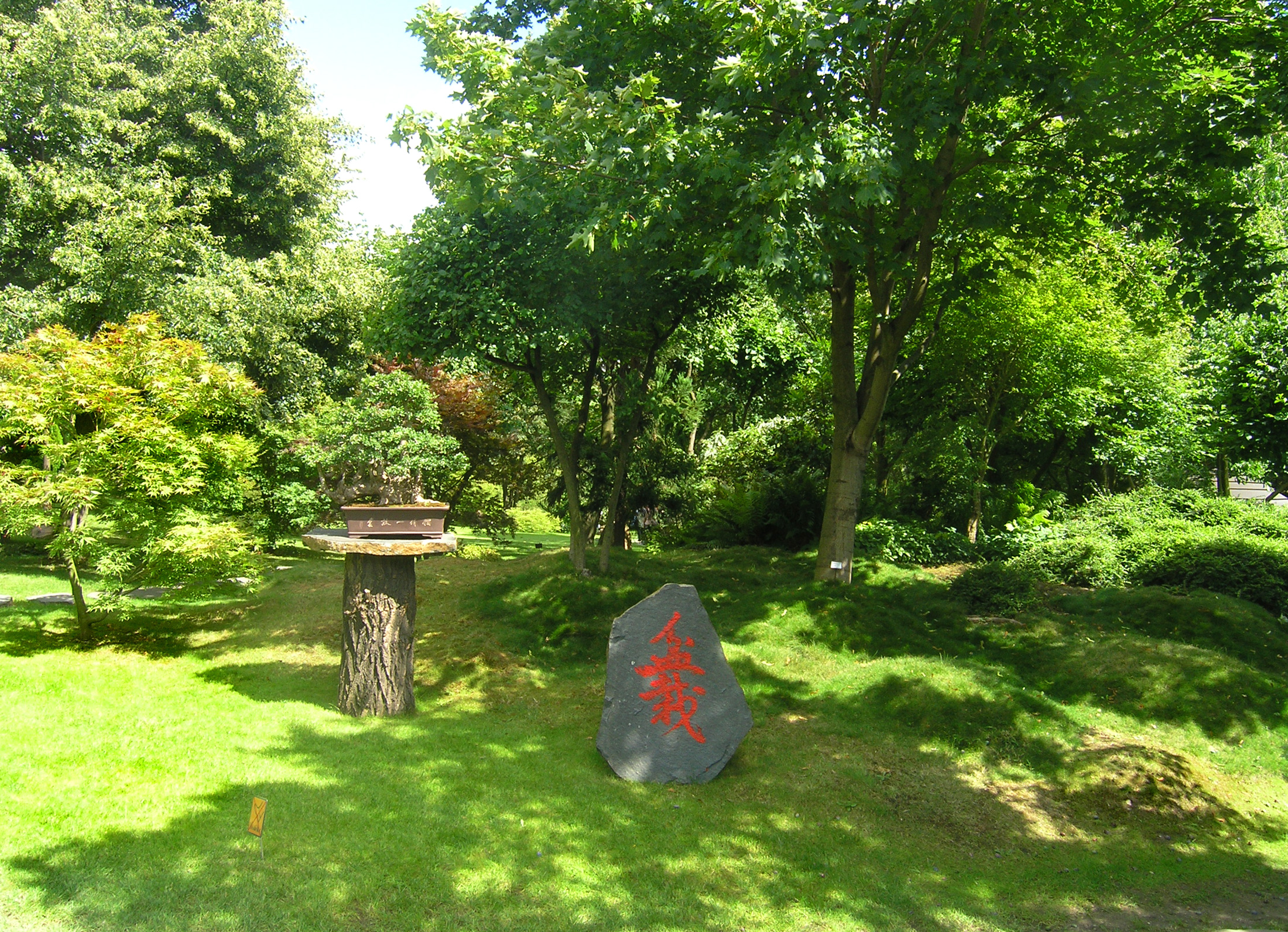 Prague Botanic Garden at Troja, Prague - Japanese garden